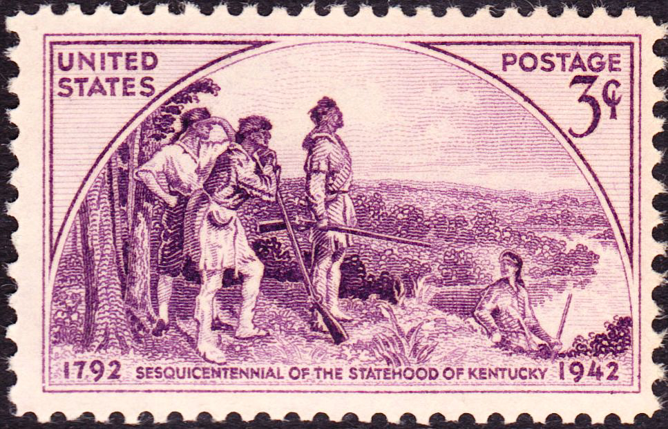 Kentucky_Statehood_1942_Issue-3c.jpg